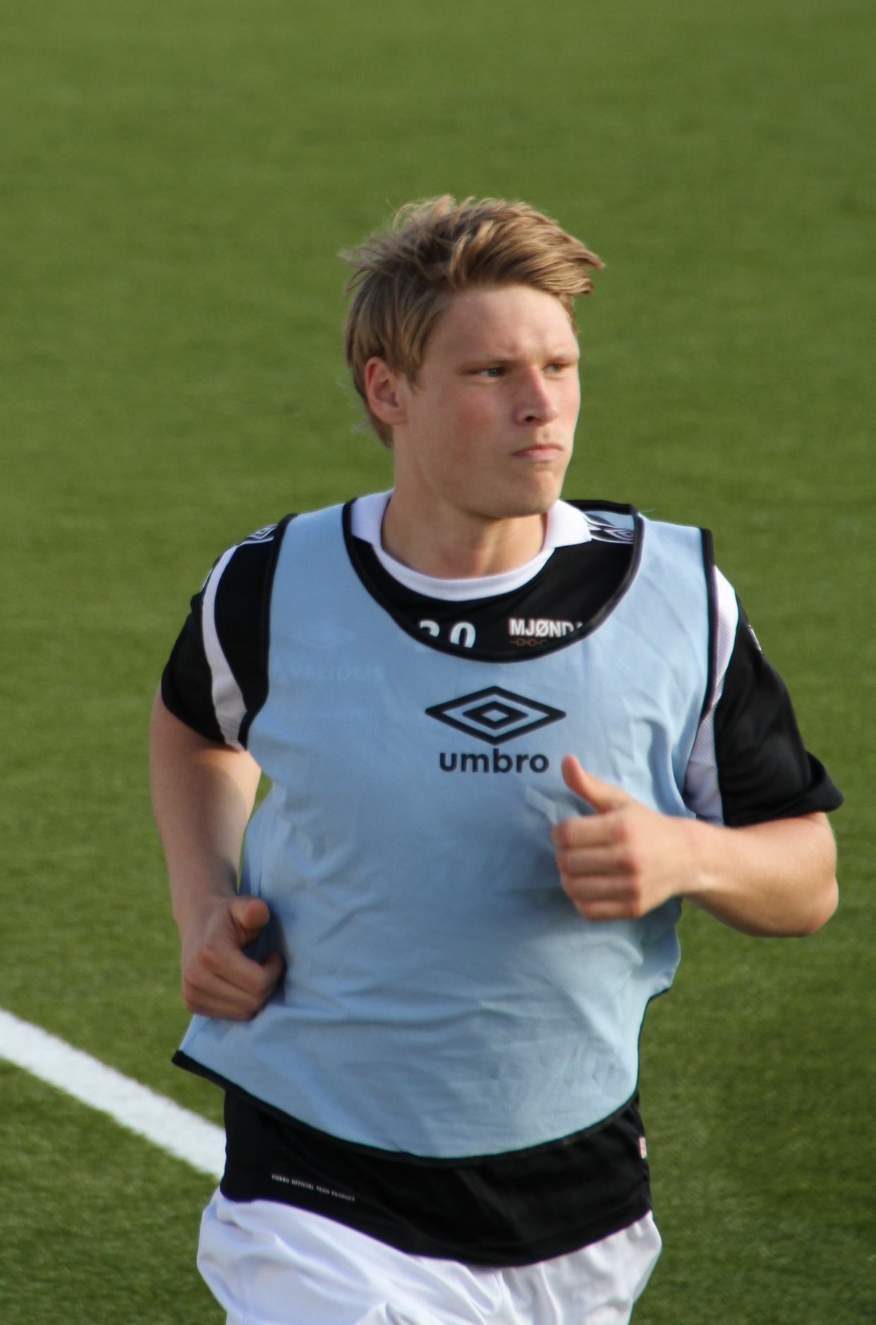 Mjöndalen (Norway) player preparing for match against IK Start